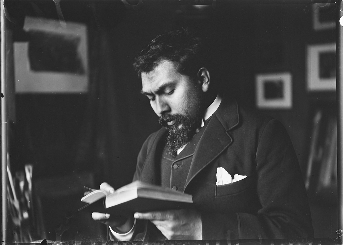 Jan Toorop in het Witsenhuis te Amsterdam, photo Willem Witsen